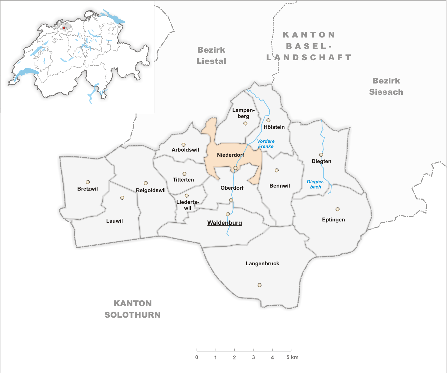 Municipality Niederdorf